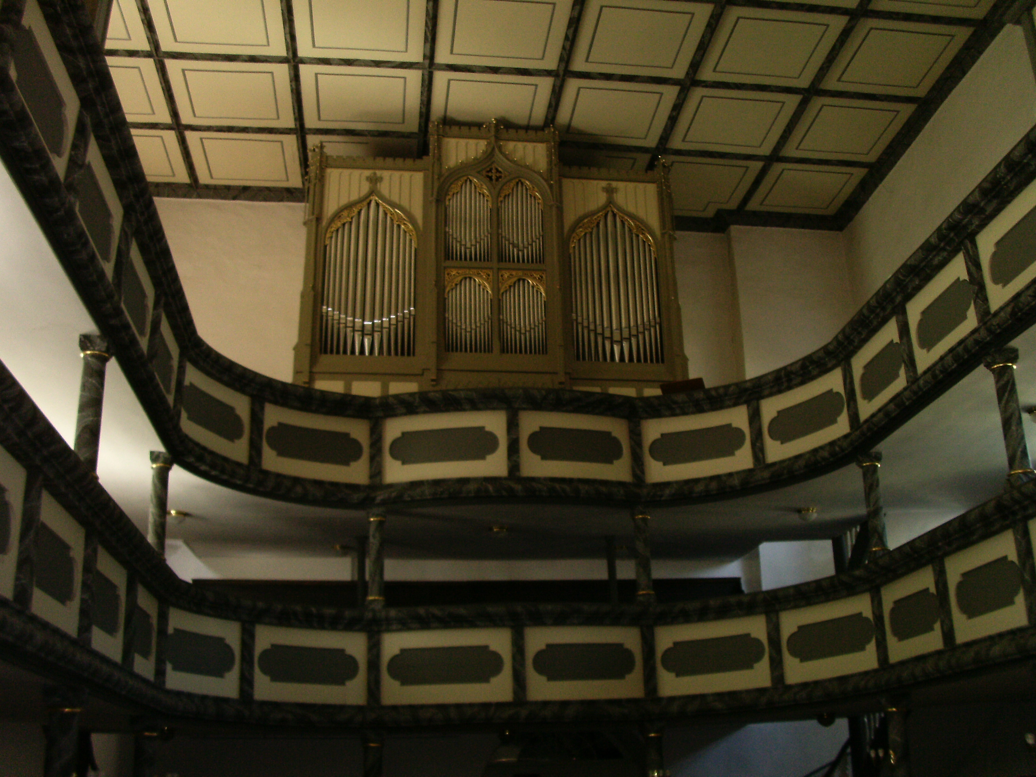 Ladegast organ in the church of the town of Naunhof (Leipzig district, Saxony)